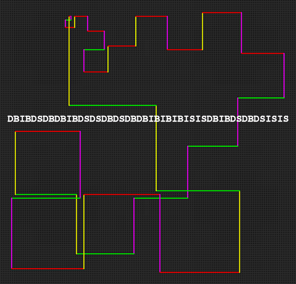 The golygon includes in the image the sequence used for its drawing. Legend: D= Right, B= Down, I= Left, S= Up